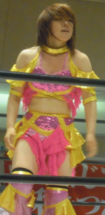 Japanese professional wrestler, Arisa Nakajima. Jul 28 2012, JWP Yokohama Radiant Hall.